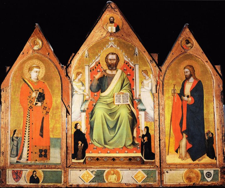 (Monastero di S. Niccolò di Cafaggio (ex), Galleria dell'Accademia